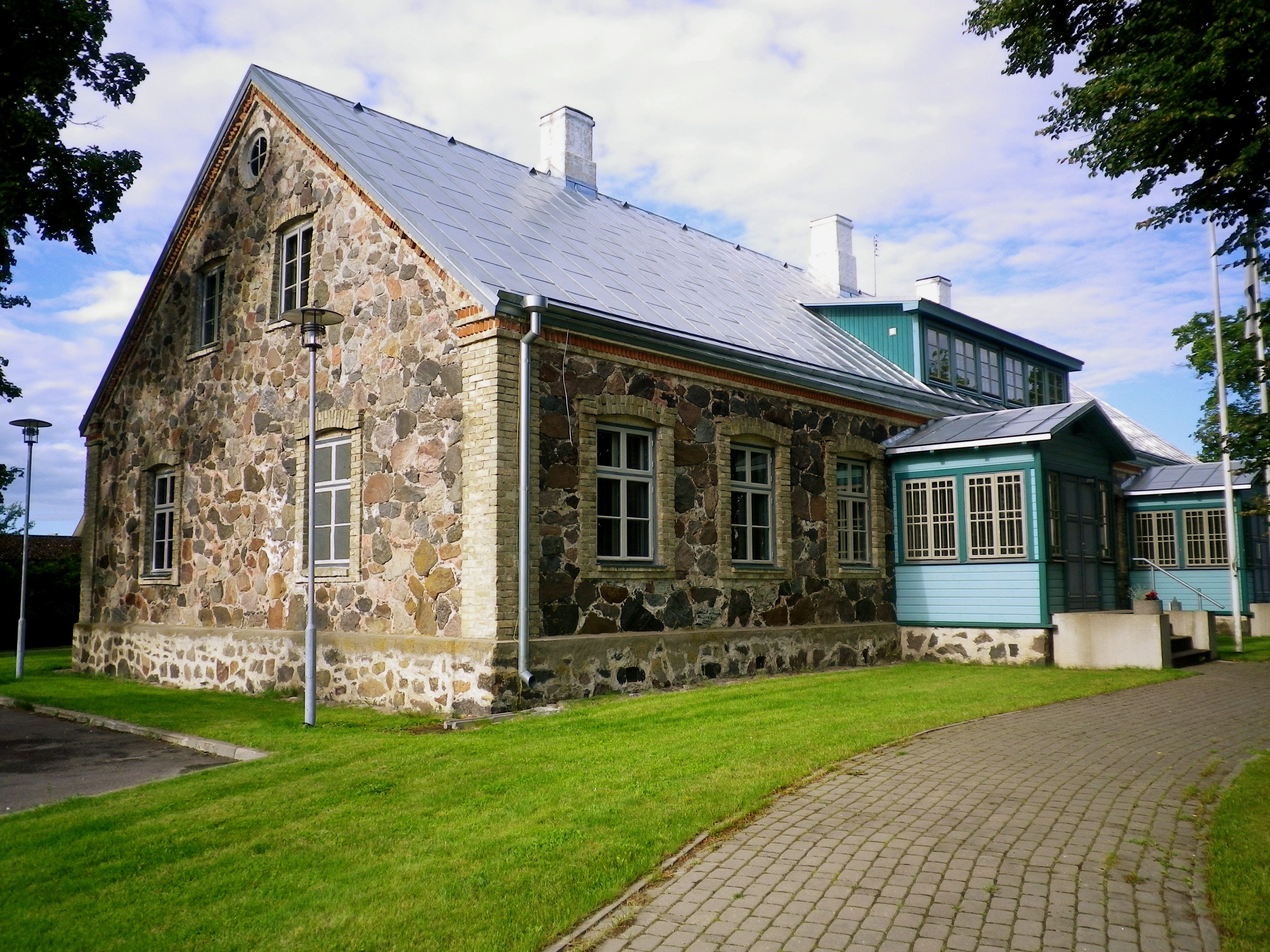 Käina rural municipality office, Hiiumaa island, Estonia